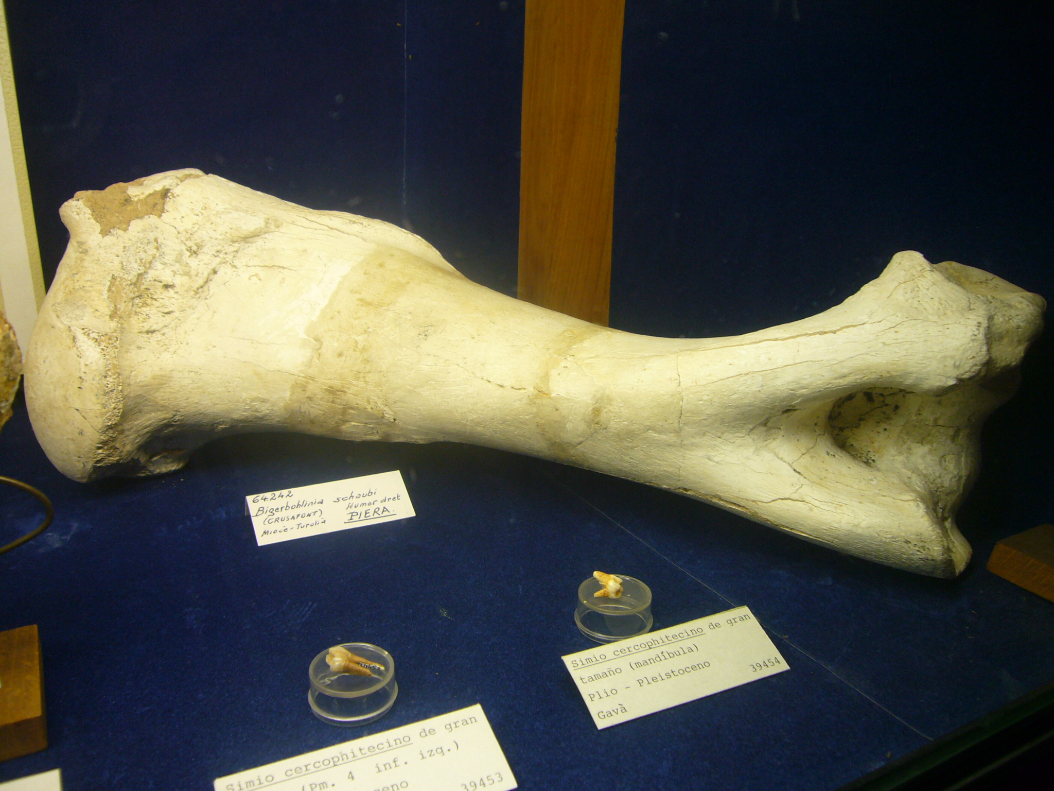 Bigerbohlinia schaubi (or Birgerbohlinia schaubi). Fossils. Collection of paleontology of the Geological Museum of the Barcelona Seminari (Museu Geològic del Seminari de Barcelona).